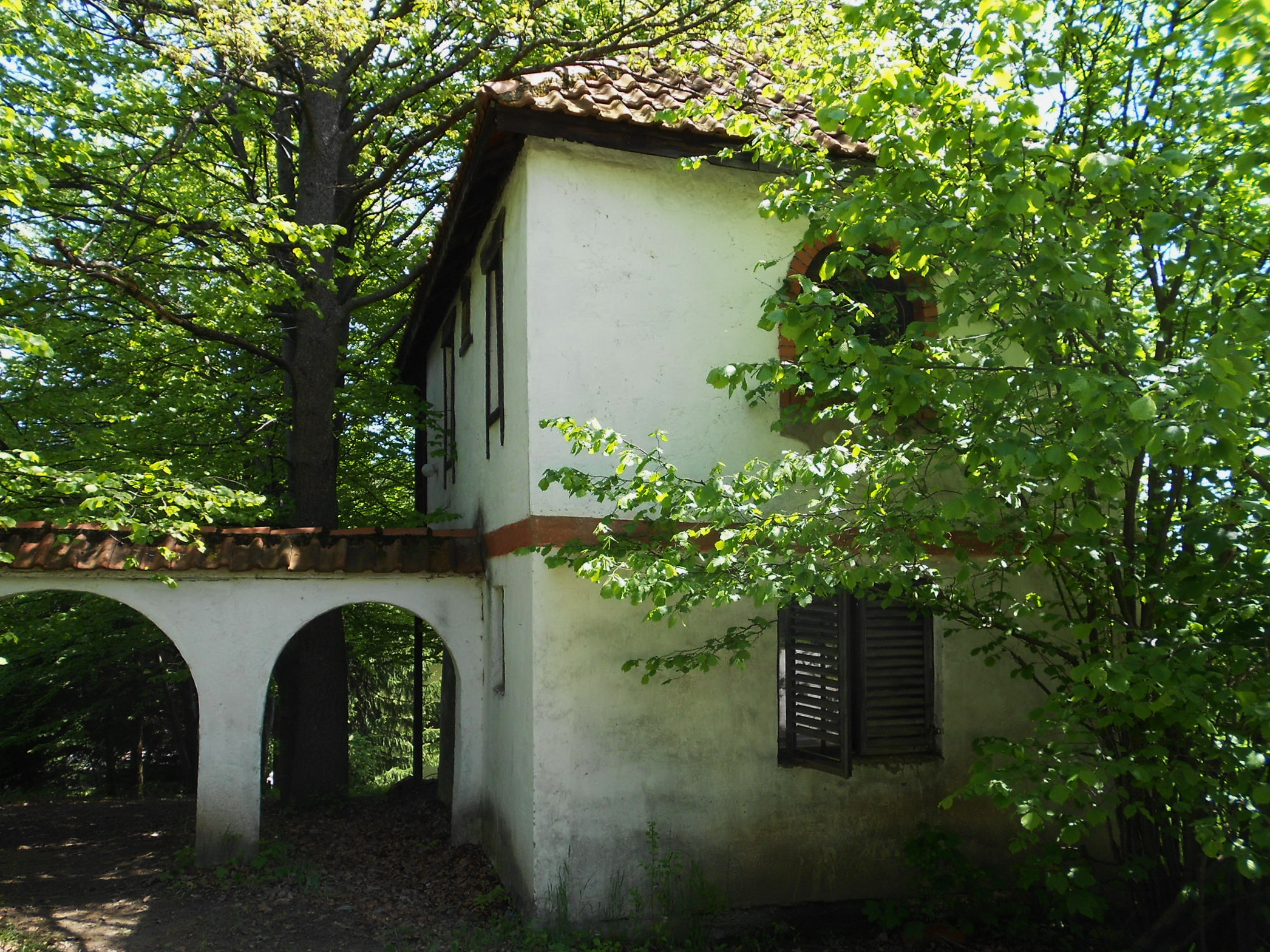 Atelier of famous Serbian painter and architect, Milić Stanković, also known as Milić od Mačve. The atelier is located at Zlatibor mountains.